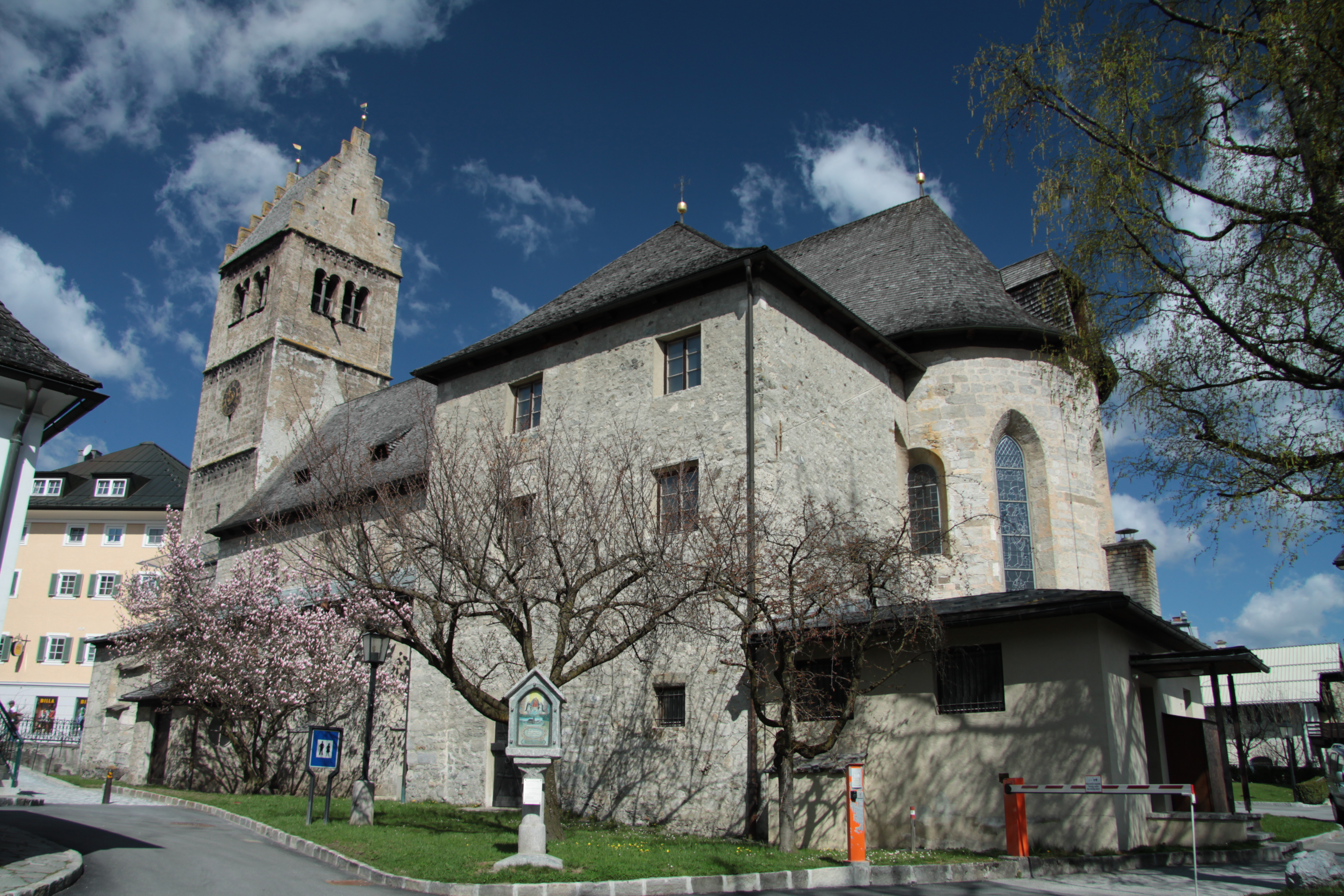 St. Hippolyte's Church in Zell am See, Austria Object location47° 19′ 23.12″ N, 12° 47′ 54.81″ E